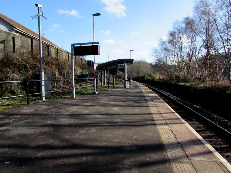 Quakers Yard railway station CCTV camera